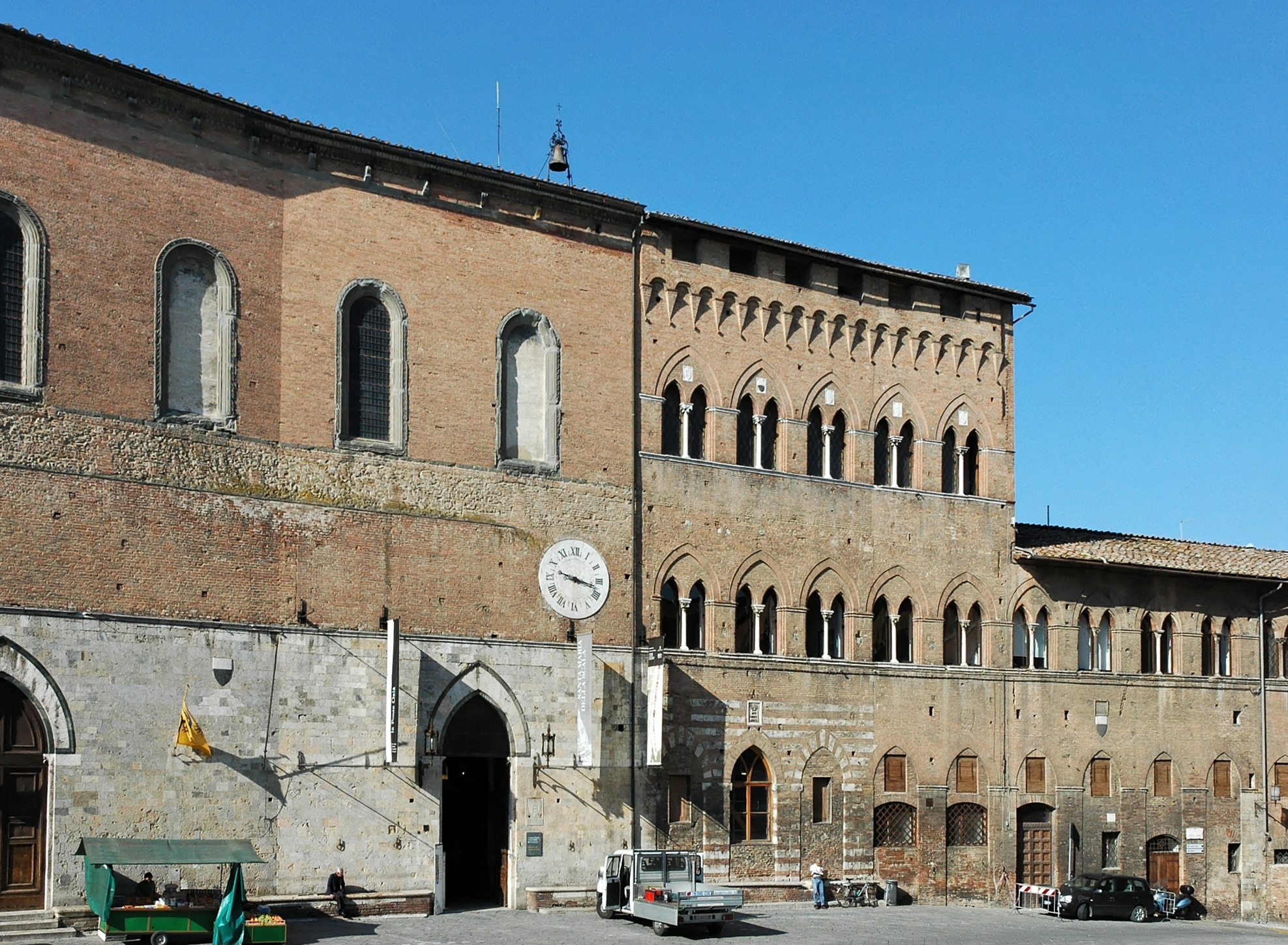 Façade of the former Hospital Santa Maria della Scala, now a museum. Piazza Duomo, Siena.